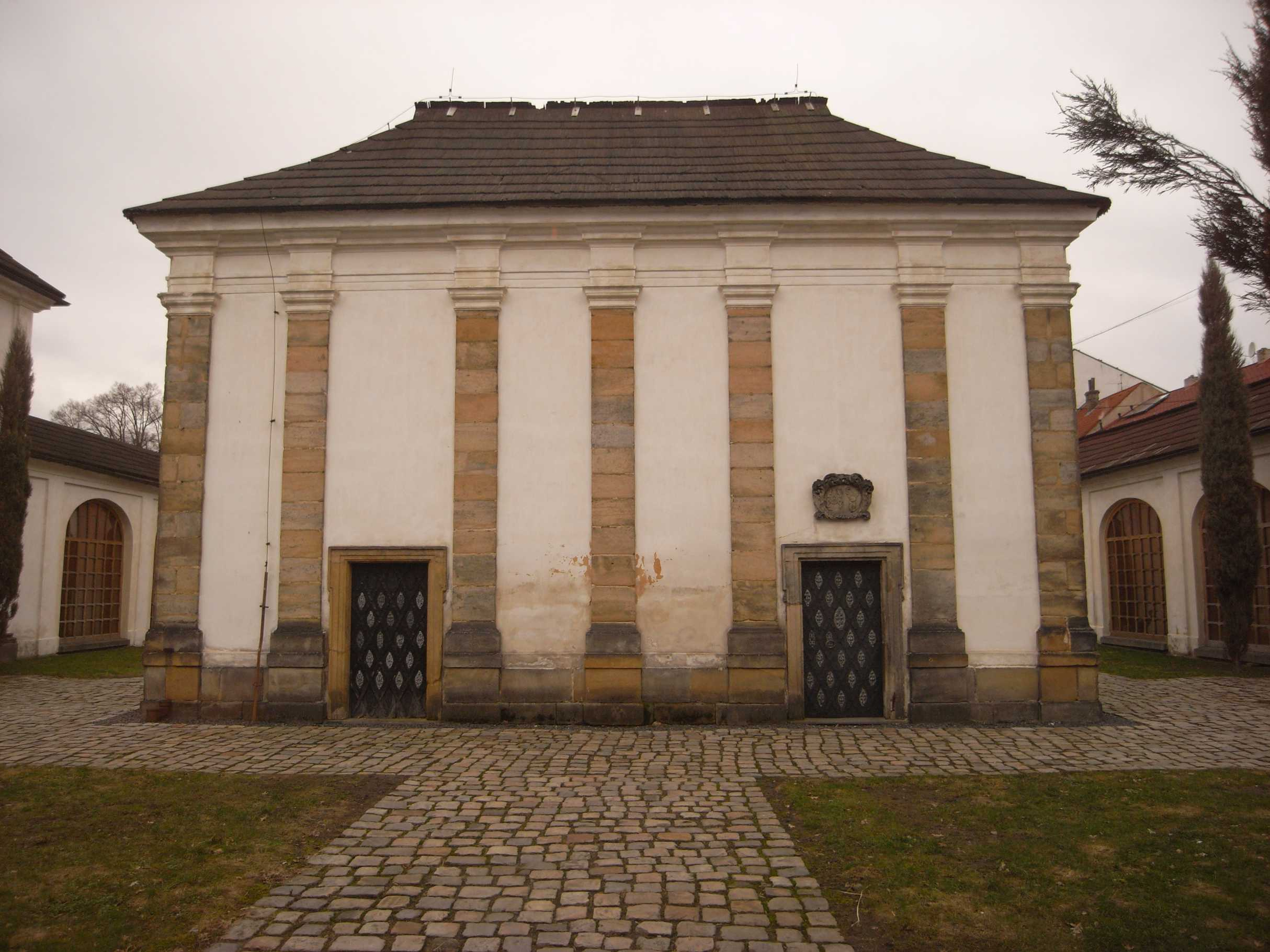 regional museum of Česká Lípa (Augustinian monastery), Loreto chapel